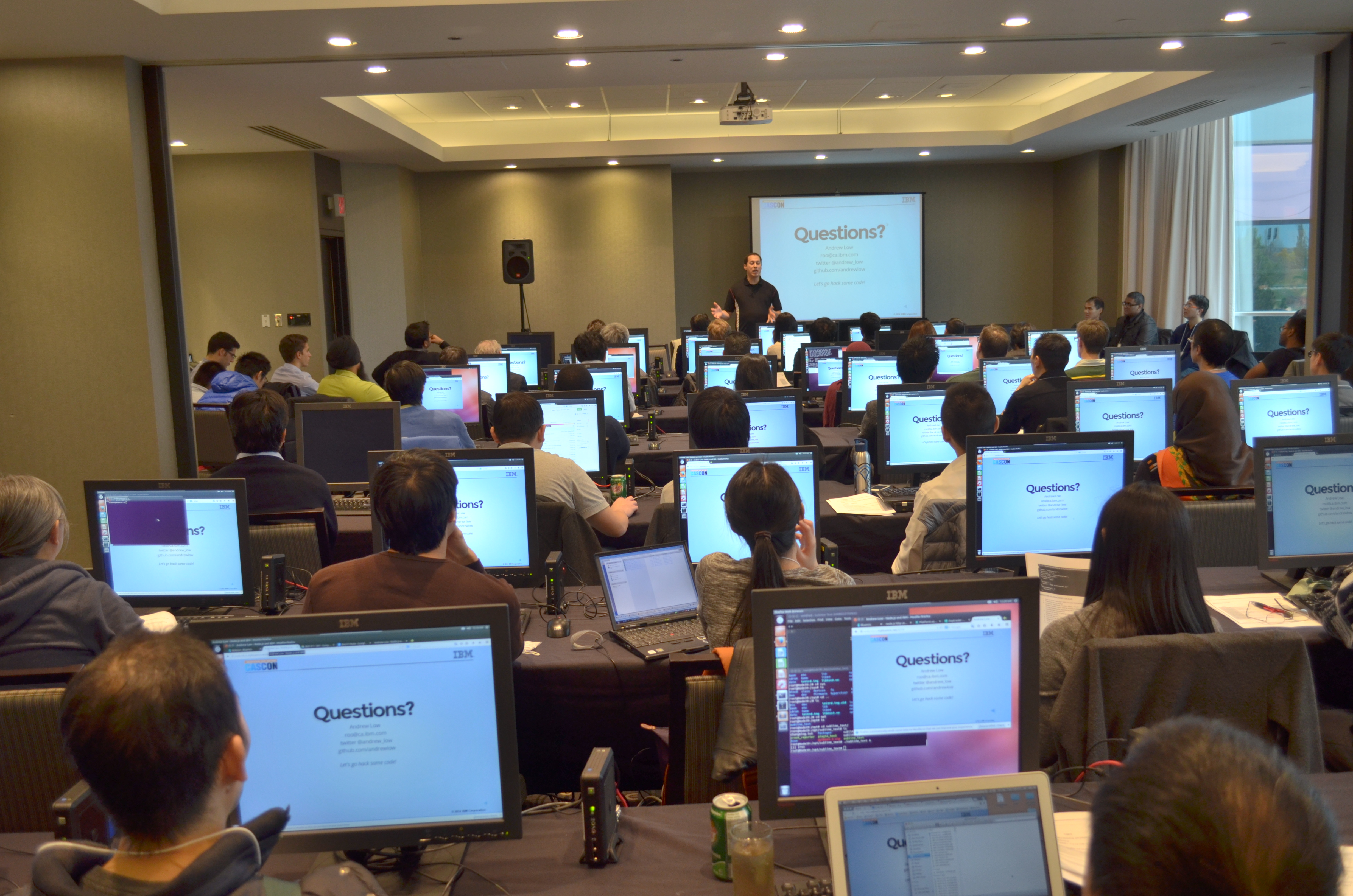 Computer training workshop given by IBM software developers